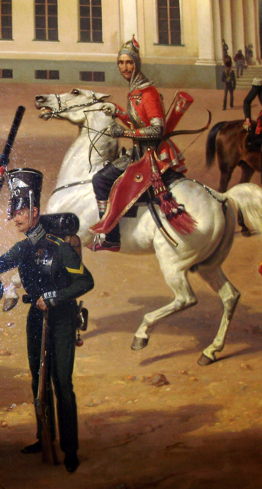 Franz Krüger, 1797-1857, Russian Guards at Tsarskoye Selo in 1832, Oil on Canvas